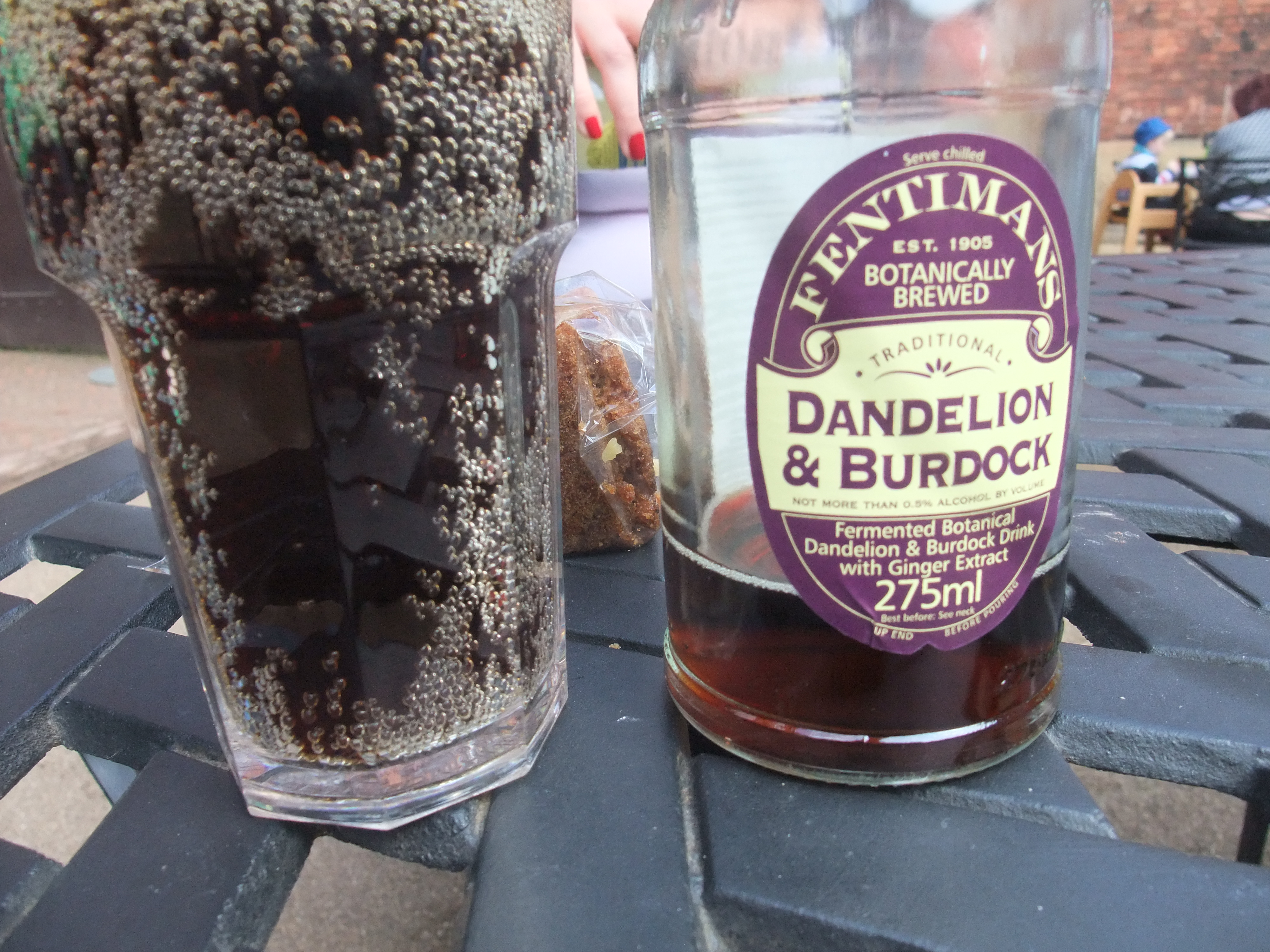 Taken at Wollaton Park.